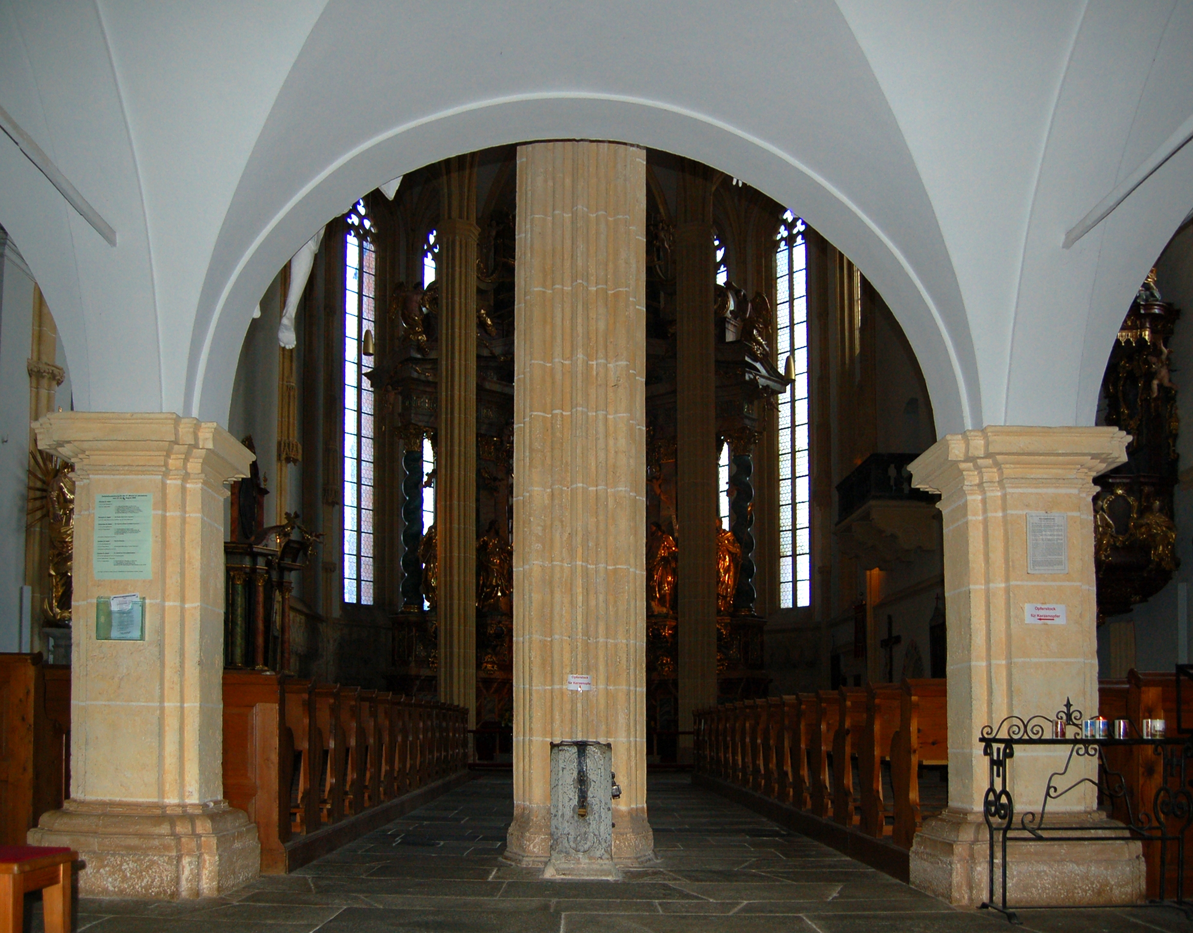 Pilgrimage church Maria Pöllauberg in Pöllauberg, Styria. Interior, interesting column structure.